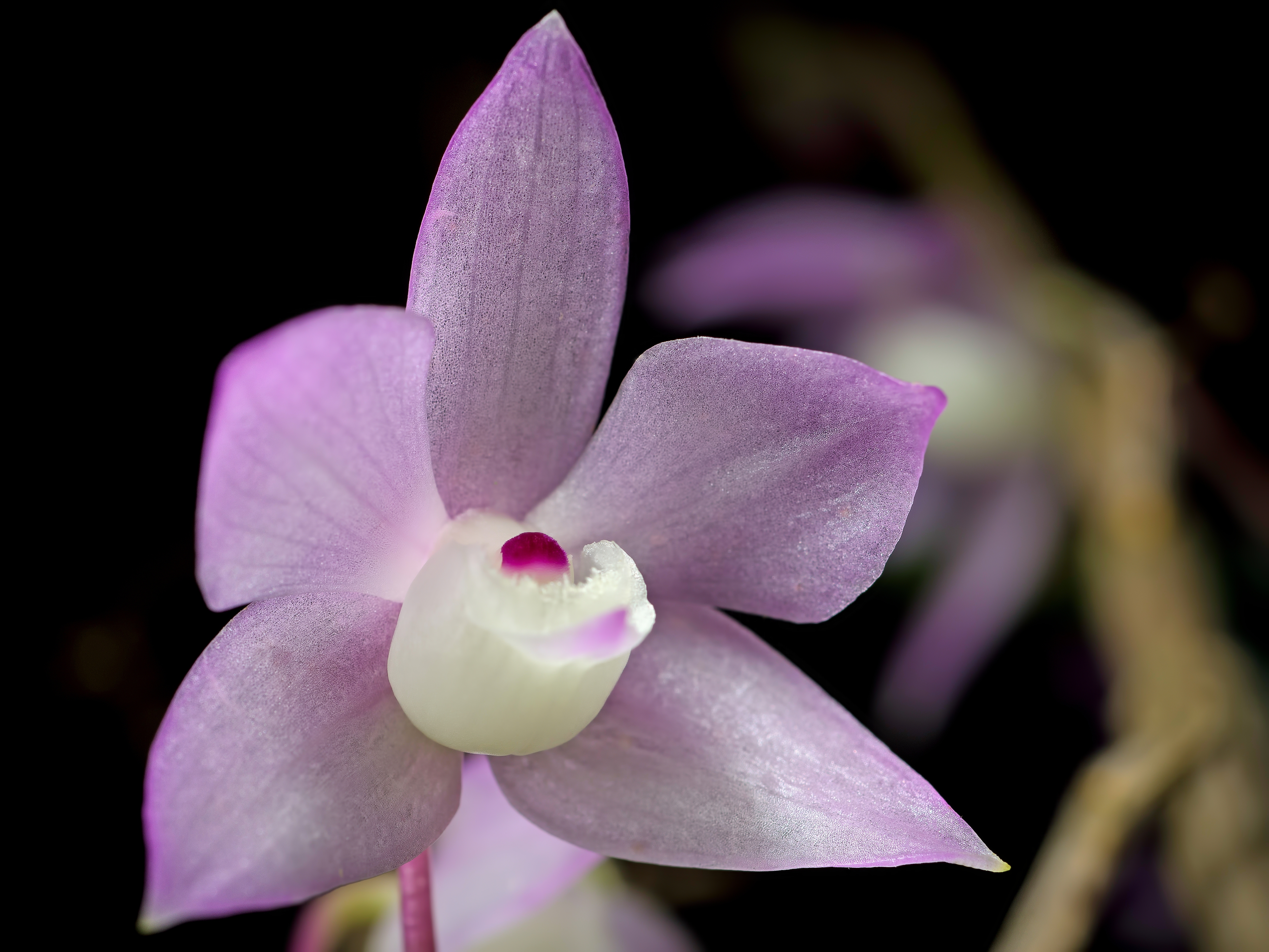 SECTION Breviflores Distribution: S. China to Pen. Malaysia, Philippines (Mindanao) 36 CHC CHH CHS 41 CBD LAO THA VIE 42 MLY PHI Found in Asia-Temperate China China South-Central, China Southeast, Hainan Asia-Tropical Indo-China Cambodia, Laos, Thailand, Vietnam, Malesia Malaya, Philippines